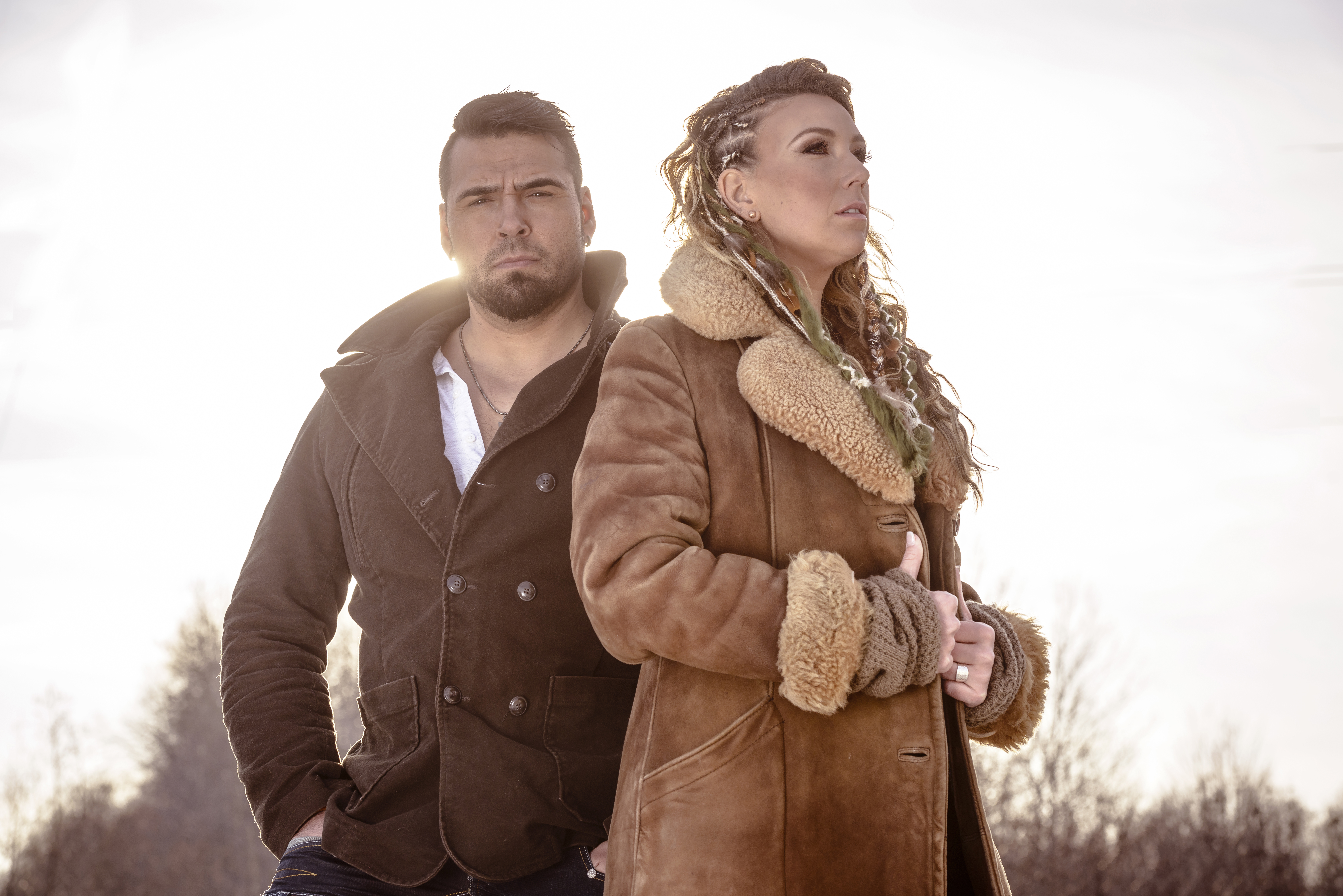 This is a promotional photo of Twin Flames featuring Chelsey June and Jaaji Okpik. They are standing outside, dressed warmly for a cold winter day.